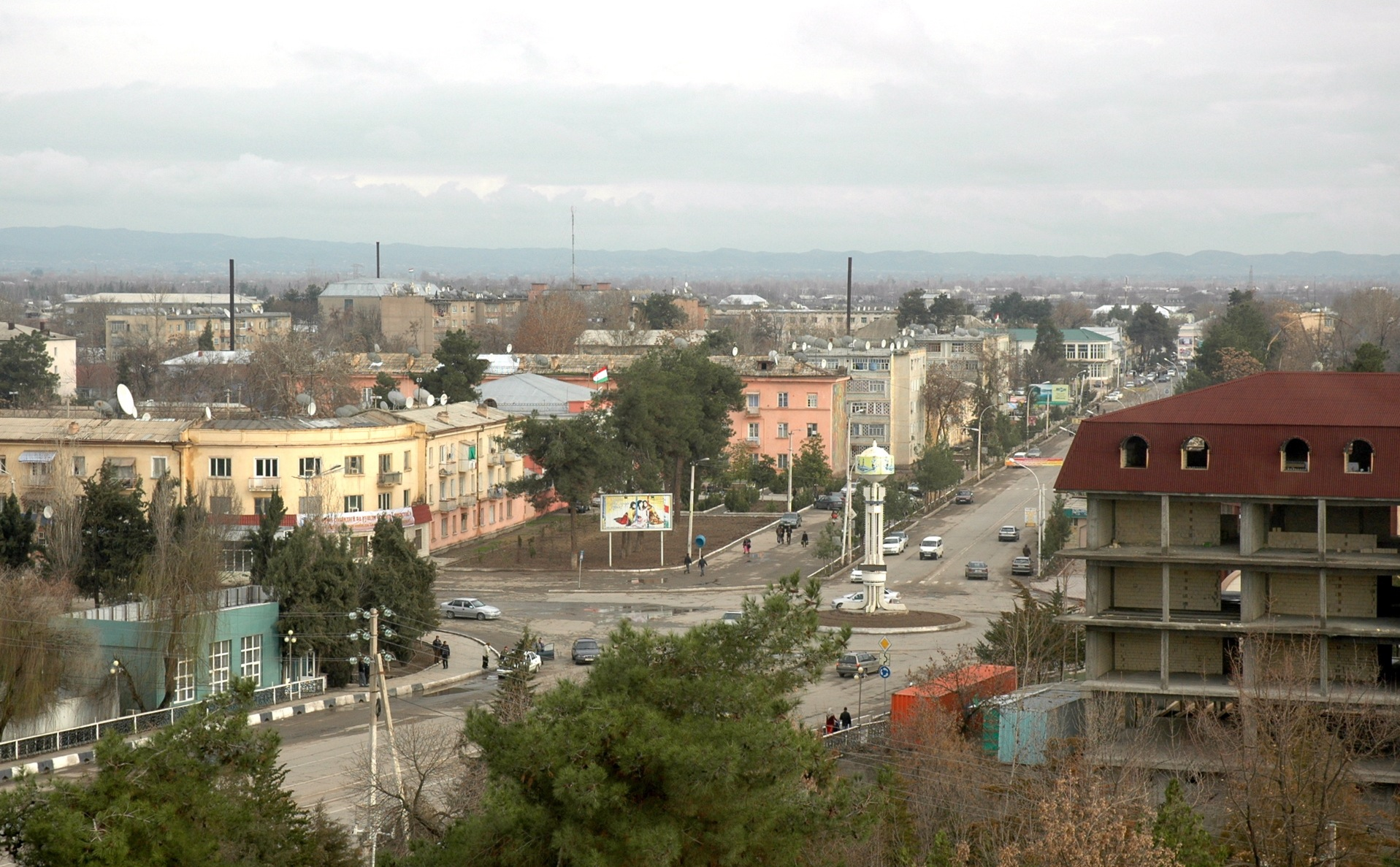 Panoramic view of Qurghonteppa city (Khatlon region, Tajikistan)